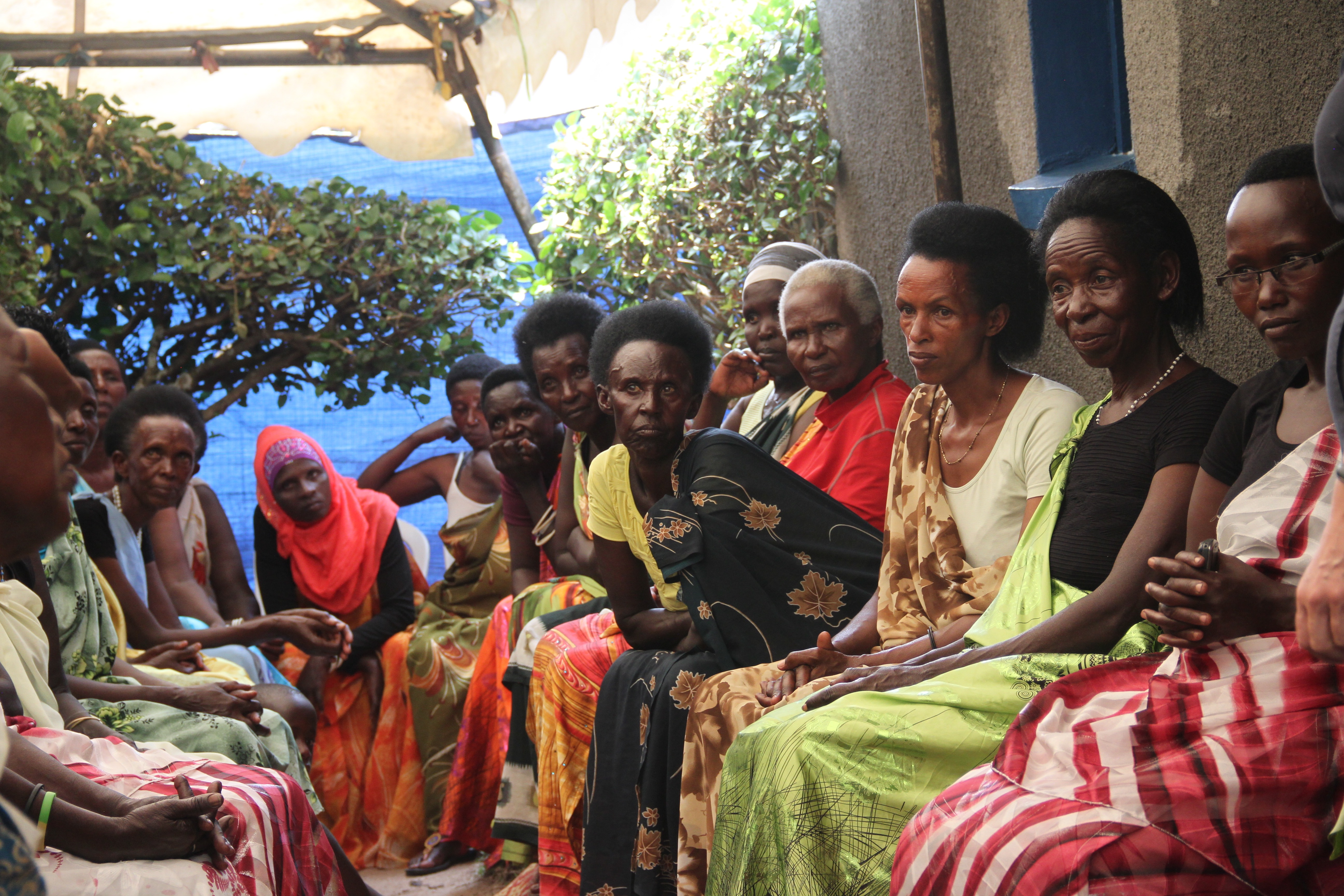 This picture was taken in Muhanga, Southern Province/Rwanda during a community old women meeting to discuss challenges to the culture This is an image of Cultural Fashion or Adornment from Rwanda